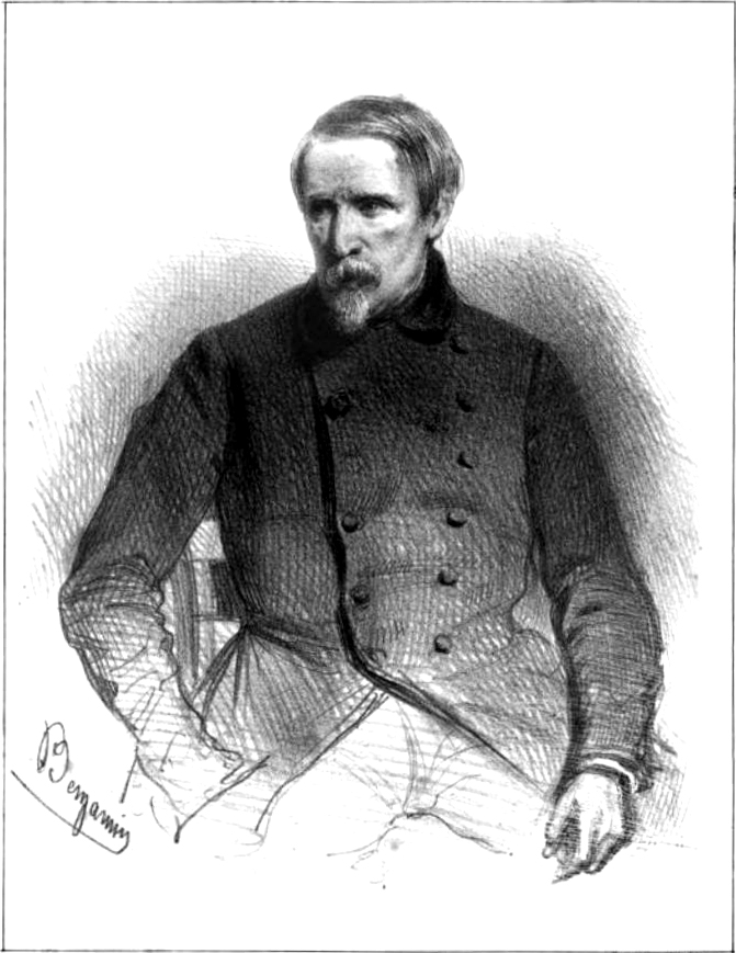 Drawing of Nicolas-Toussaint Charlet (1792-1845), French military painter